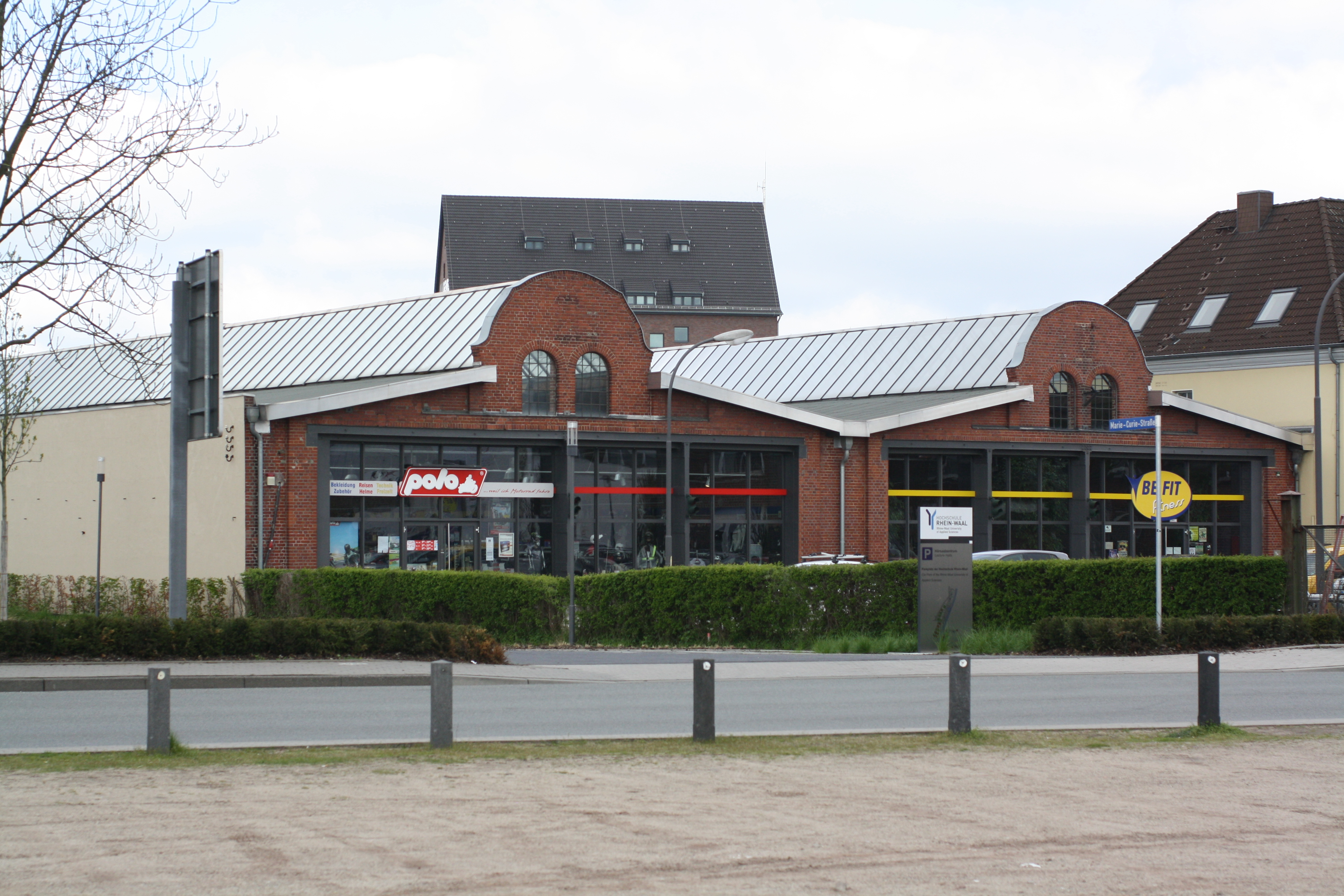 Listed former tram depot in Cleves, North Rhine-Westphalia, Germany